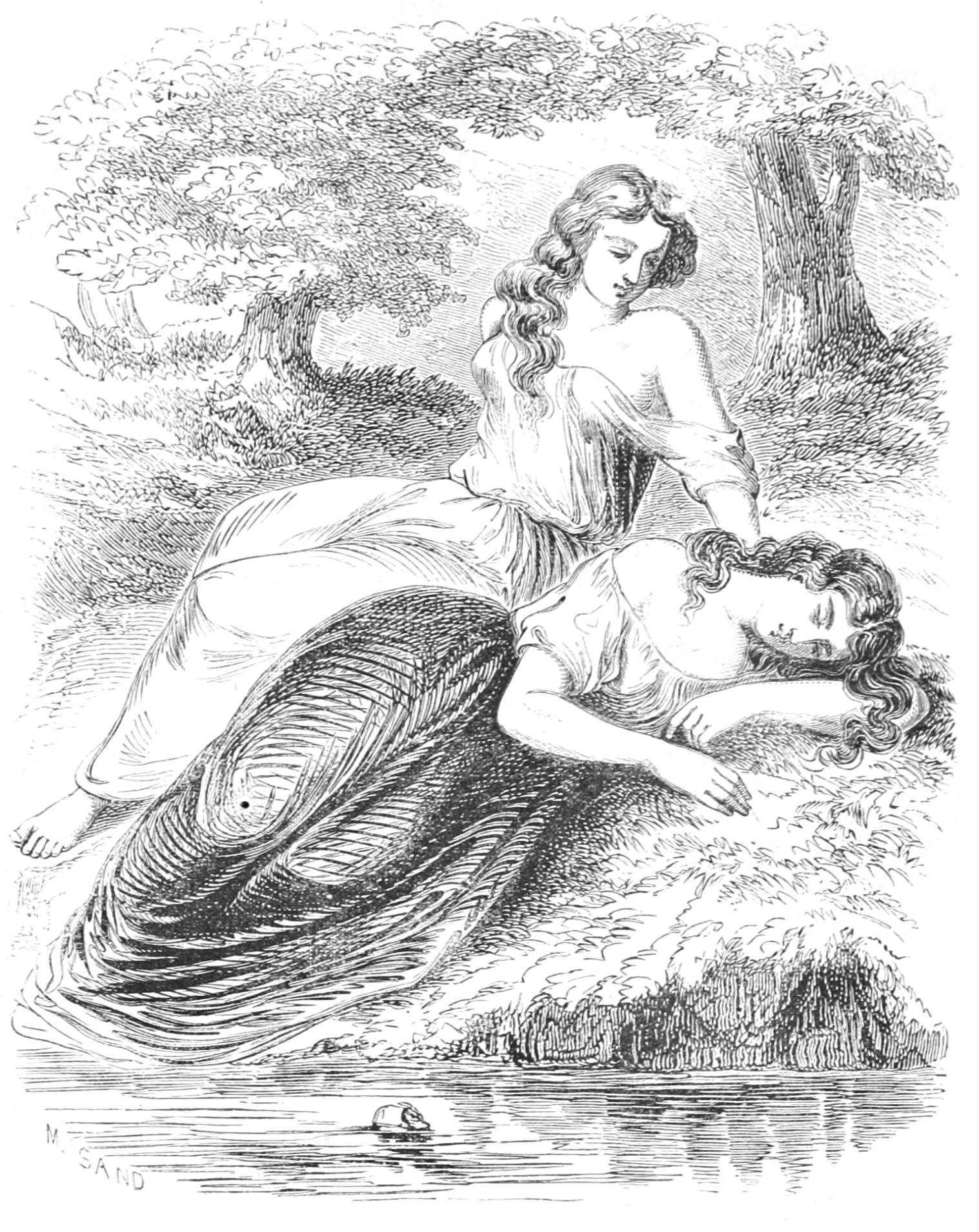 Illustration for George Sand’s novel Lélia by her son Maurice Sand